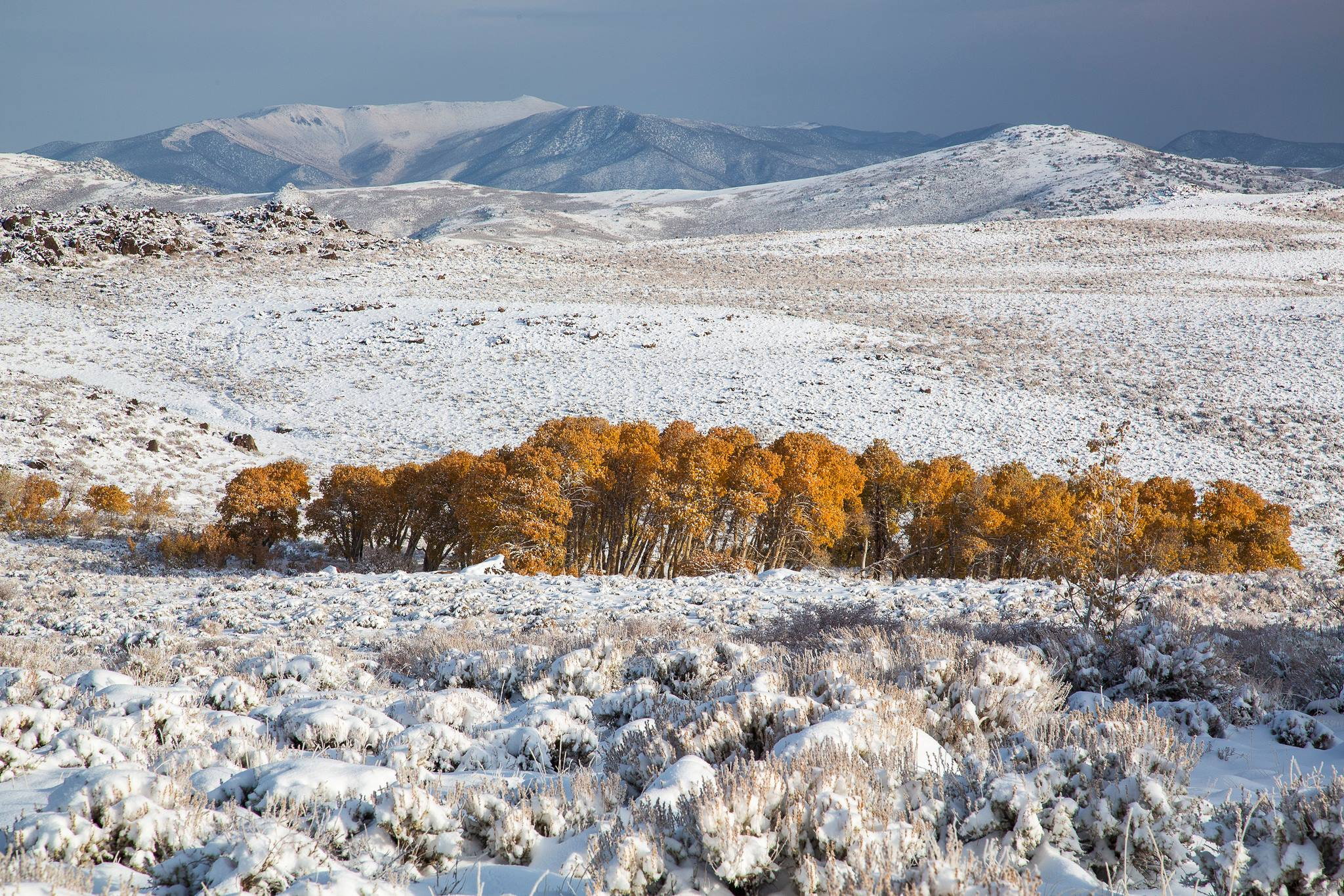 Fall quickly transitions into winter in California's Eastern Sierra with snow often blanketing the changing aspen. This view of a lonely aspen stand is in the Bodie Hills, a high windswept range east of Bridgeport, California. Summer and fall visitors to the Bodie Hills can explore their famous namesake ghost town and then head out on a backcountry adventure to look for wildflowers, which peak in June-July, or fall colors that peak in October. Wildlife viewers can see antelope, mule deer, and if lucky, get a glimpse of the Greater Sage-grouse. From now until spring the area will be buffeted by winter storms, providing hardy visitors with opportunities to snowmobile and ski when conditions are right. The Bodie Hills region totals 121,500 acres of BLM-managed public lands, adjacent to @u.s.forestservice and privately owned land. Photo by Bob Wick, BLM